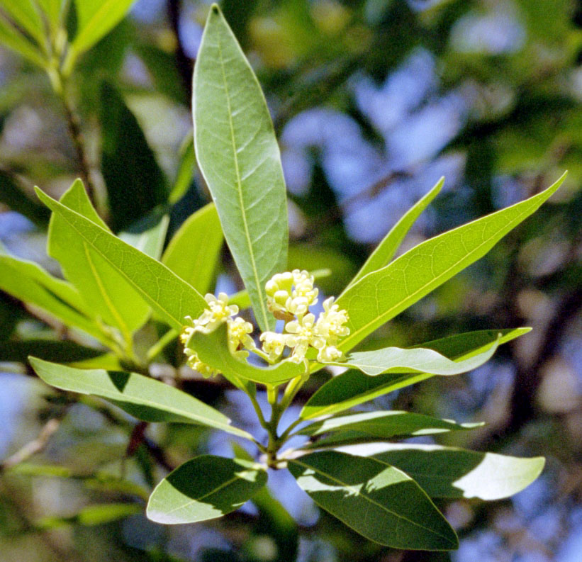 Umbellularia californica (California Bay Laurel) leaves and flowers. Taken by User:Elf March 4, 2006, Henry Coe park, San Jose, California